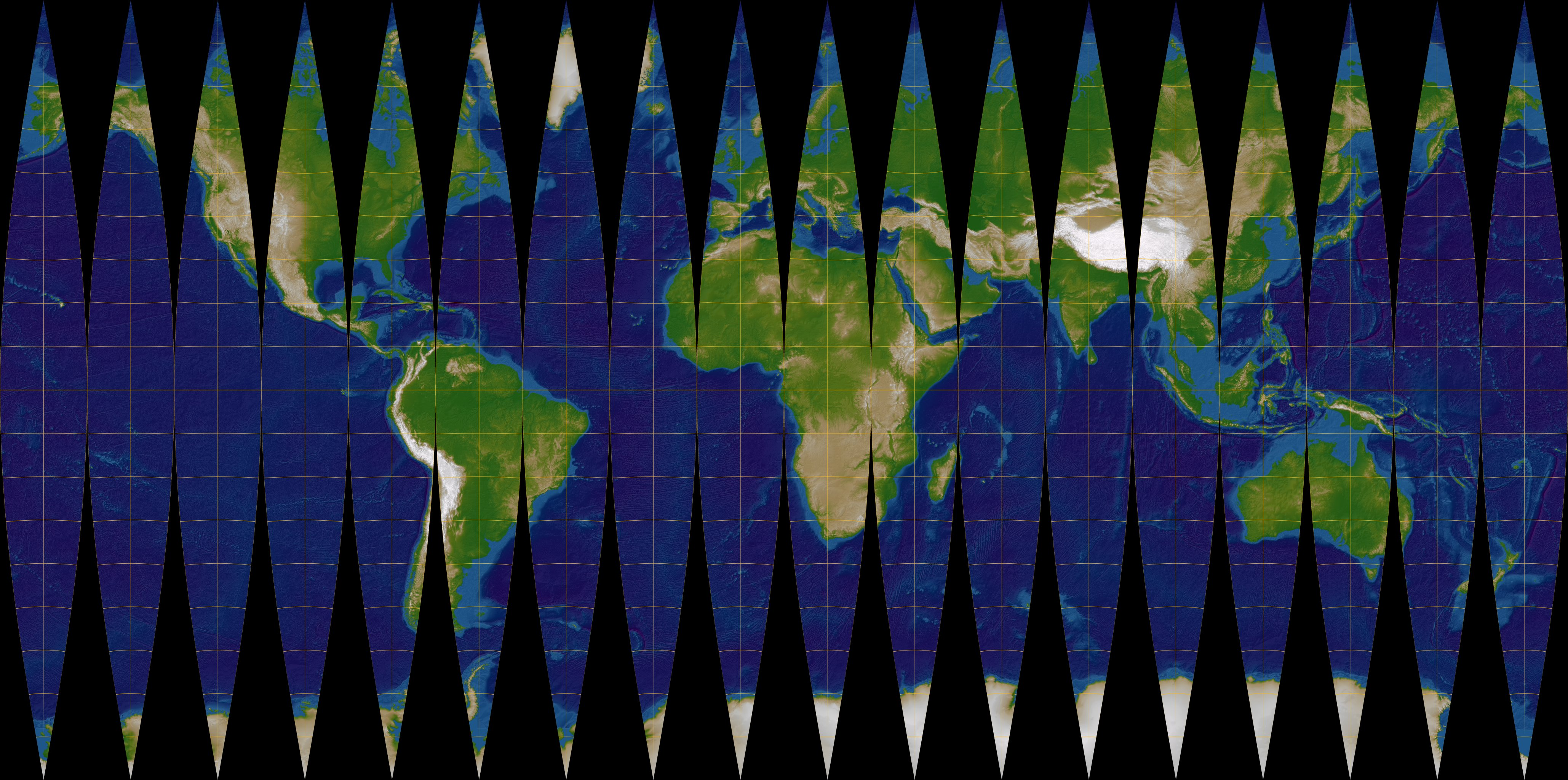 Transverse Mercator projection. 20 deg meridian stripes.